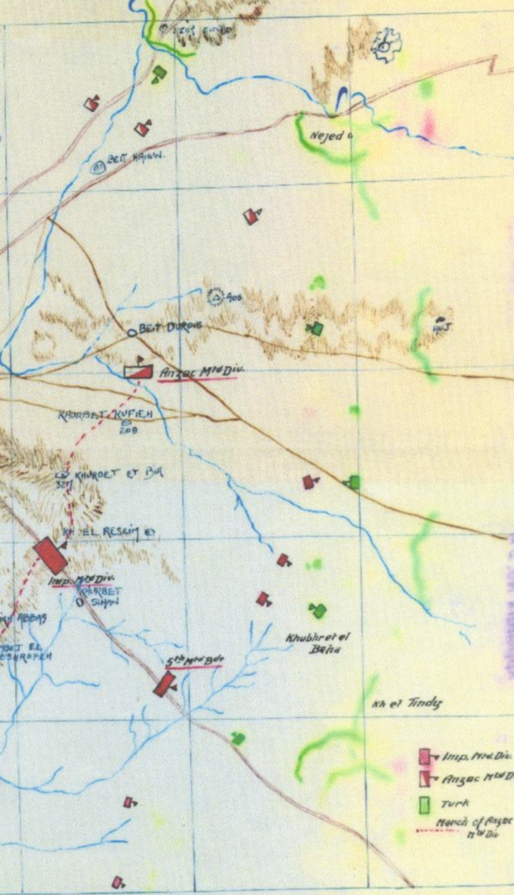 Detail of sketch map showing positions at 14:00 during First Battle of Gaza Other information Australian Government document